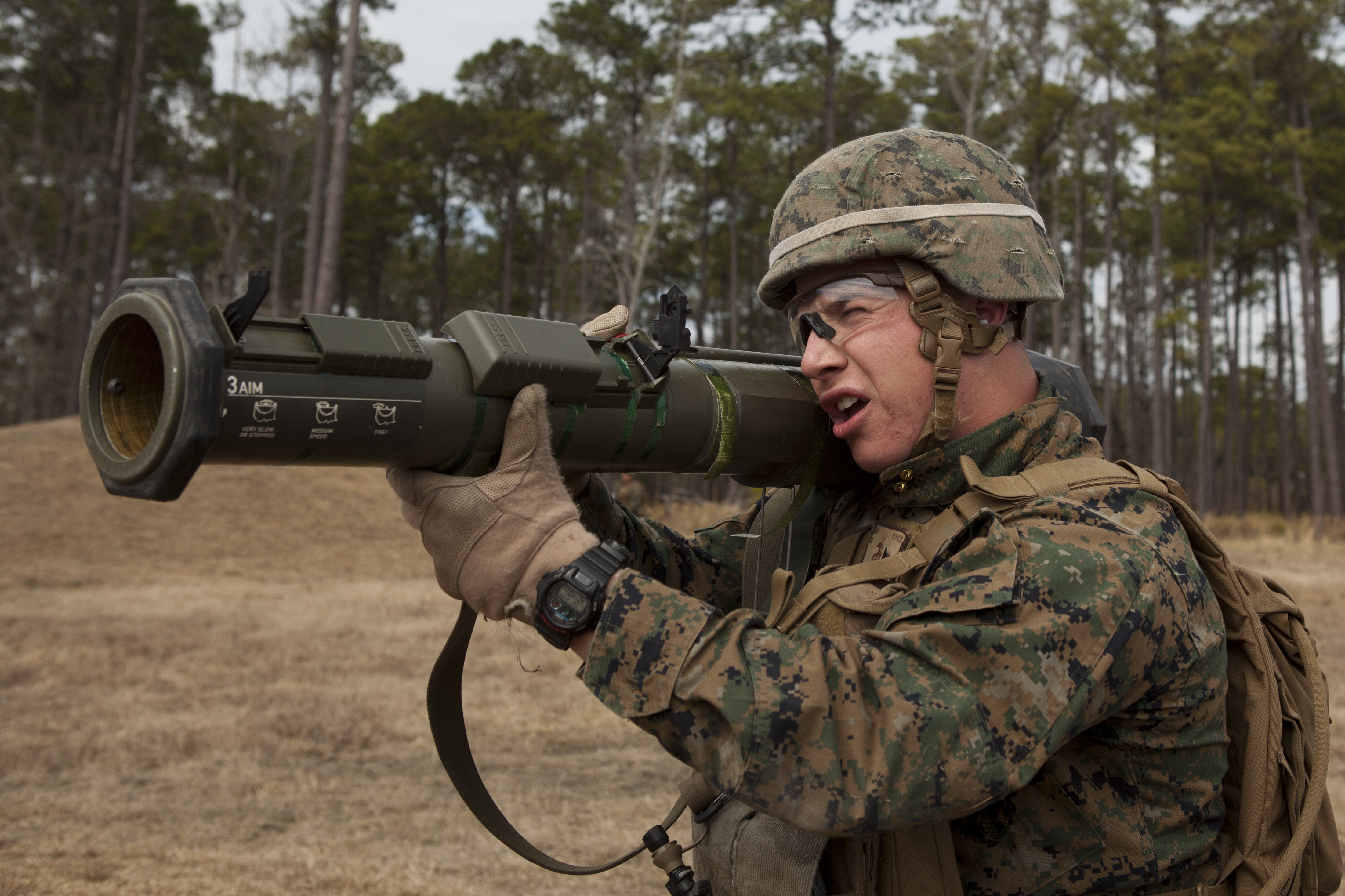 U.S. Marine Corps Lance Cpl. James Culler, rifleman, 2nd Battalion, 8th Marine Regiment, 2nd Marine Division engages targets with an M136E1 Anti Tank 4-Combined Space during a live fire exercise on Kilo Range 509 aboard Camp Devil Dog, N.C., Feb. 26, 2014. The unit, having recently returned from Afghanistan, used the exercise to maintain combat tactics for future deployments and operations. (U.S. Marine Corps photo by Lance Cpl. Christopher Mendoza, 2nd MARDIV, Combat Camera/Released)